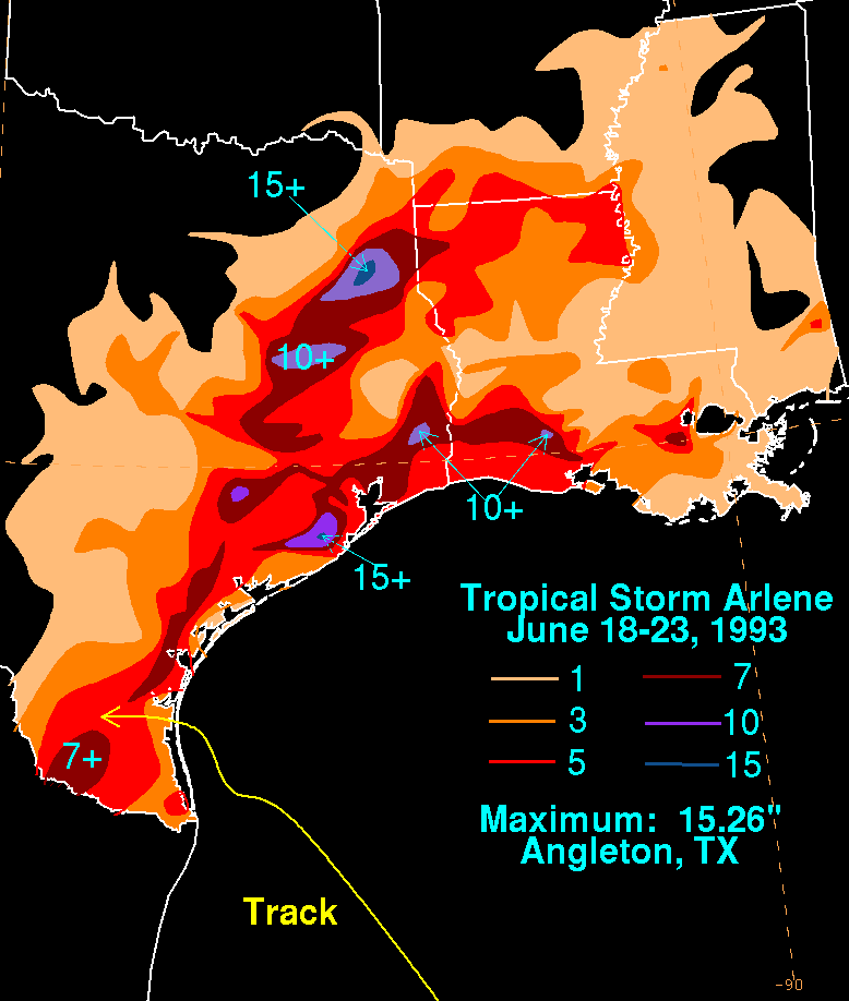 Rainfall produced by Tropical Storm Arlene during June 1993.